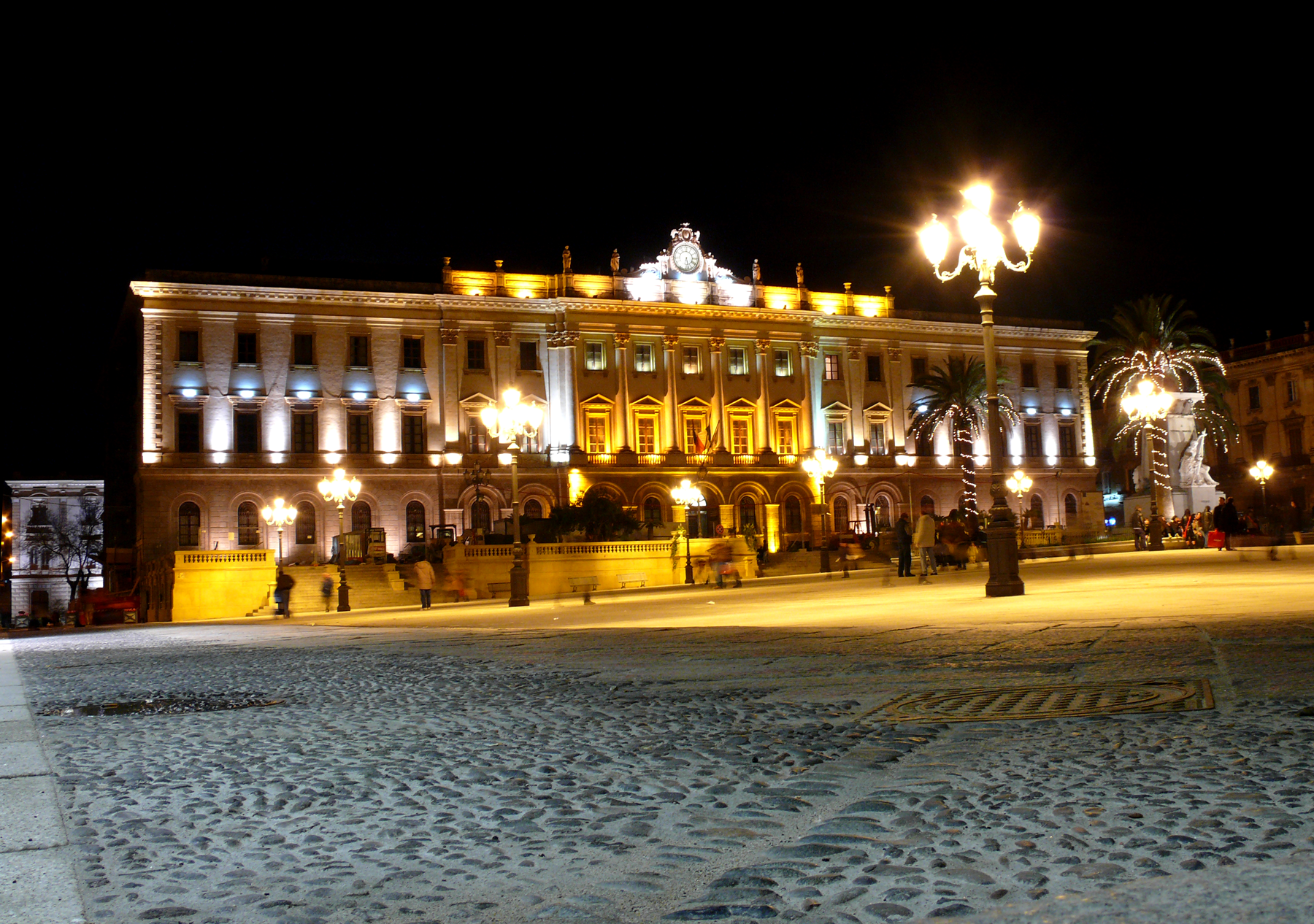 Piazza d' Italia, sassari, sardinia